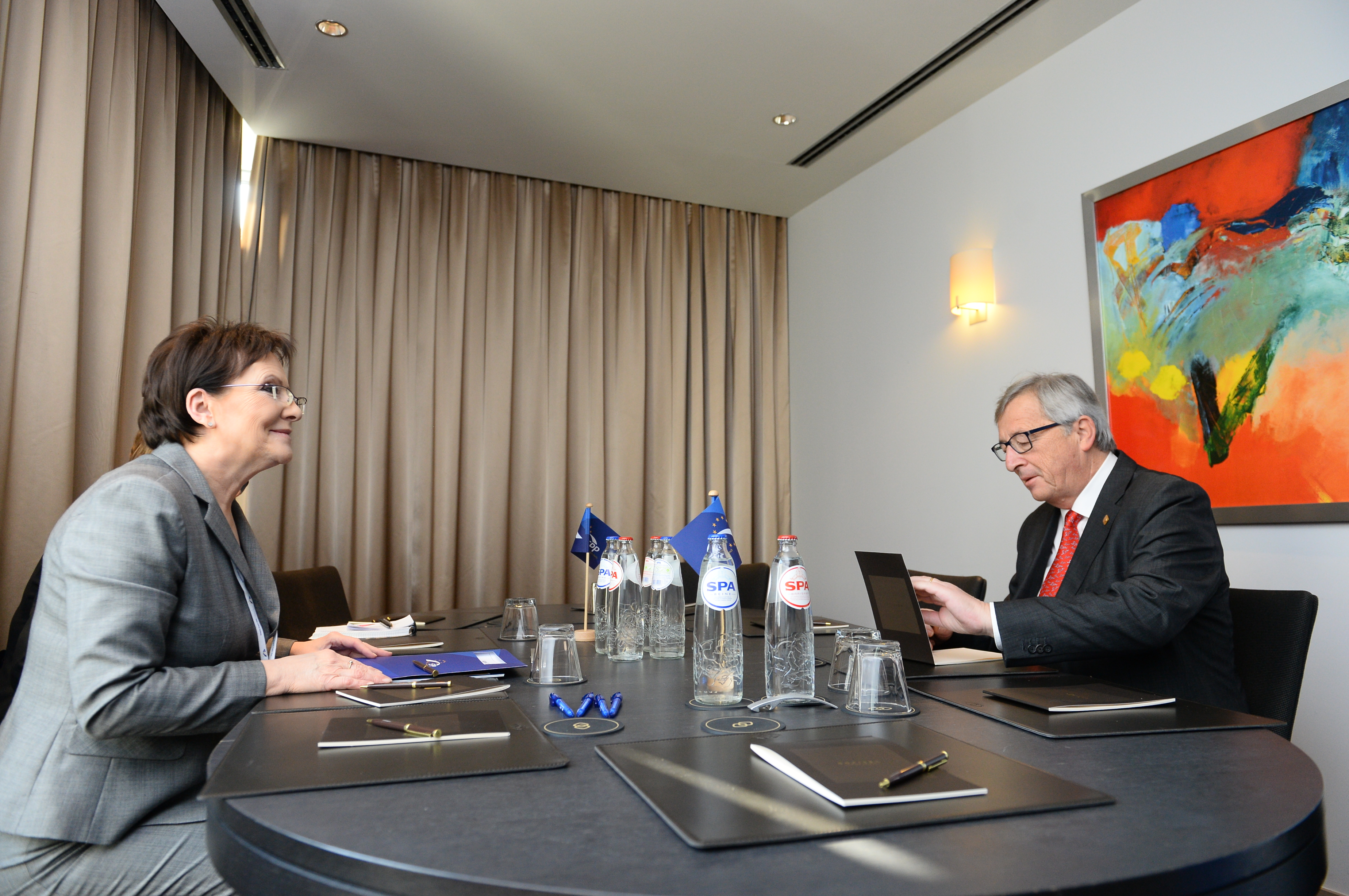 EPP Summit, 12 February, Brussels